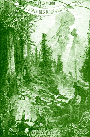 Original cover of the Book "Godfrey Morgan" (L'École des Robinsons) by Jules Verne